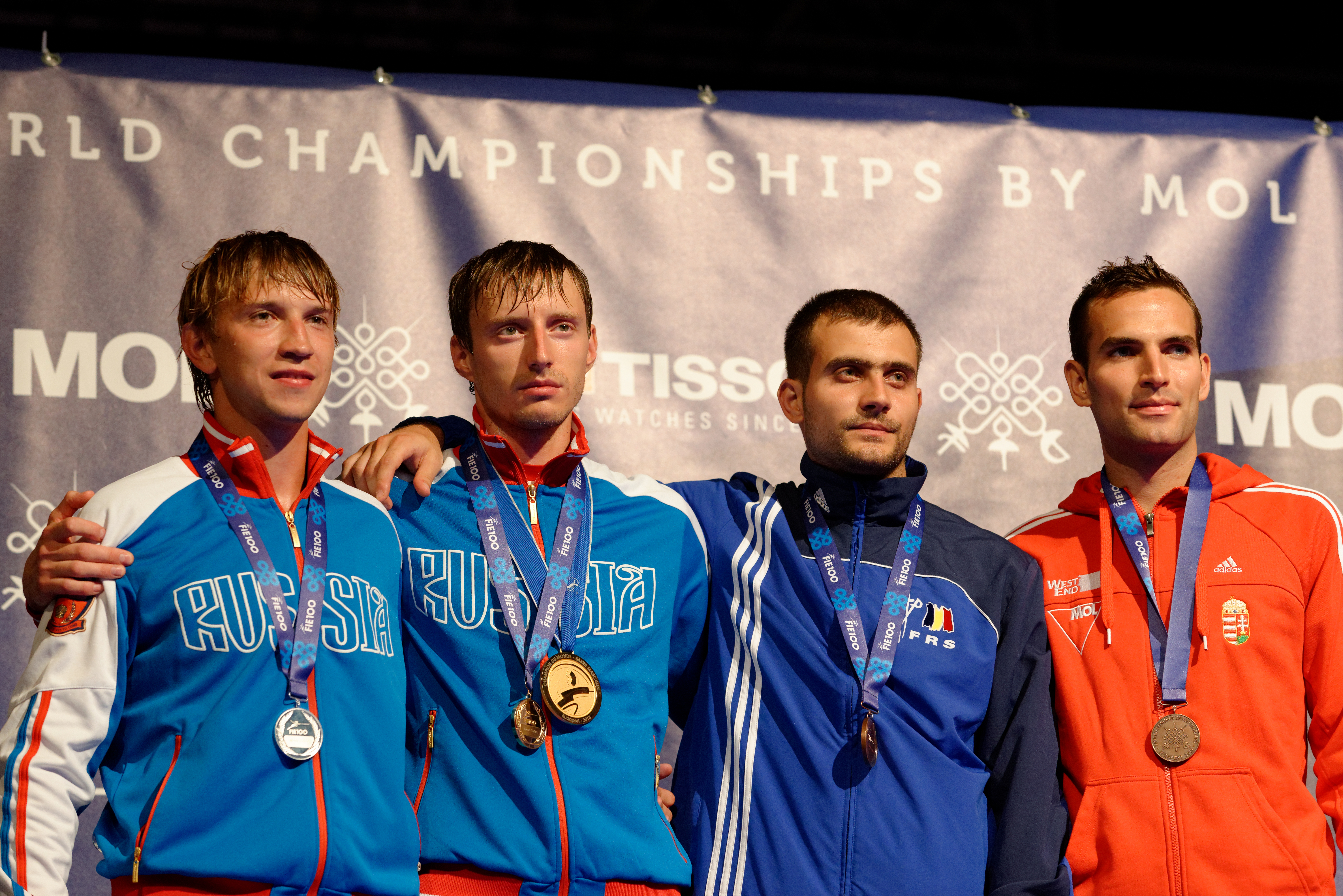 Podium of the men's sabre event (from left to right, Nikolay Kovalev, Veniamin Reshetnikov, Tiberiu Dolniceanu, and Áron Szilágyi) in the 2013 World Fencing Championships 2013 at Syma Hall in Budapest, 10 August 2013.